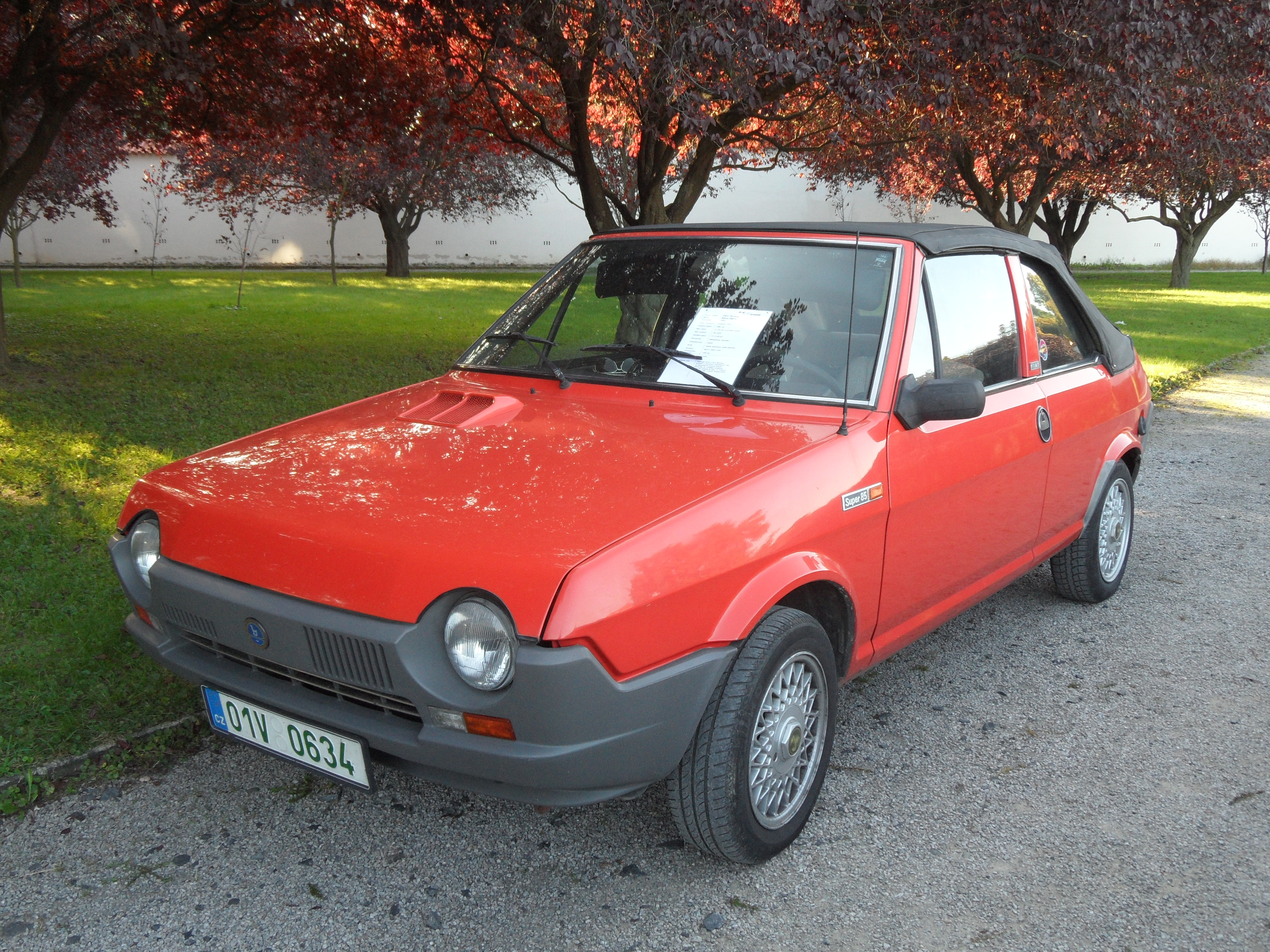 Celebrating the 120th anniversary of the founding of FIAT. K. Cars from 1980s and 1990s: FIAT / Bertone Ritmo Cabrio, year 1983. Inline-four engine OHC, 1498 ccm. Troja Palace, Prague, the Czech Republic.